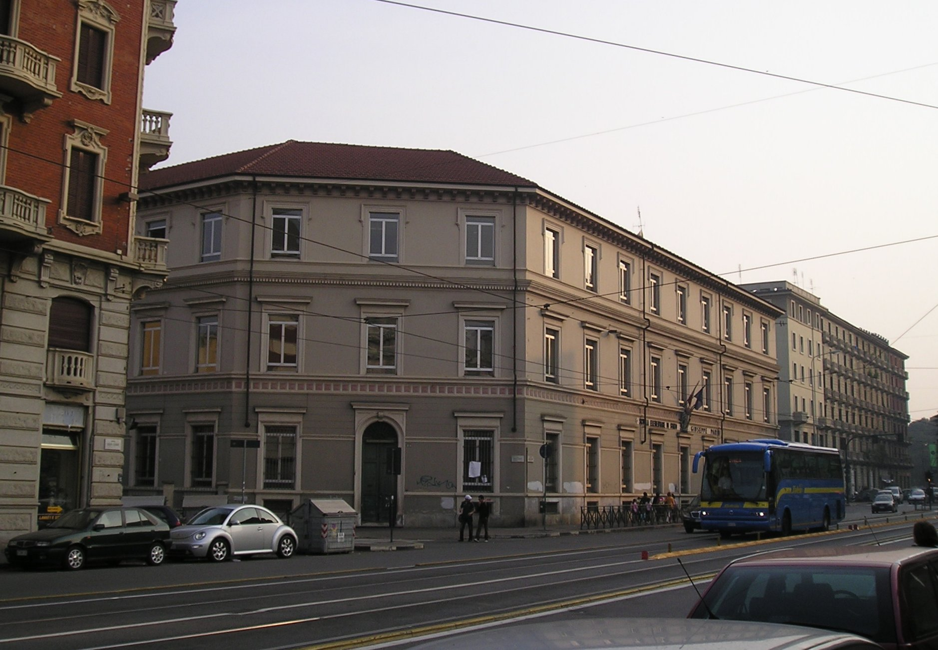 Parini school in Turin